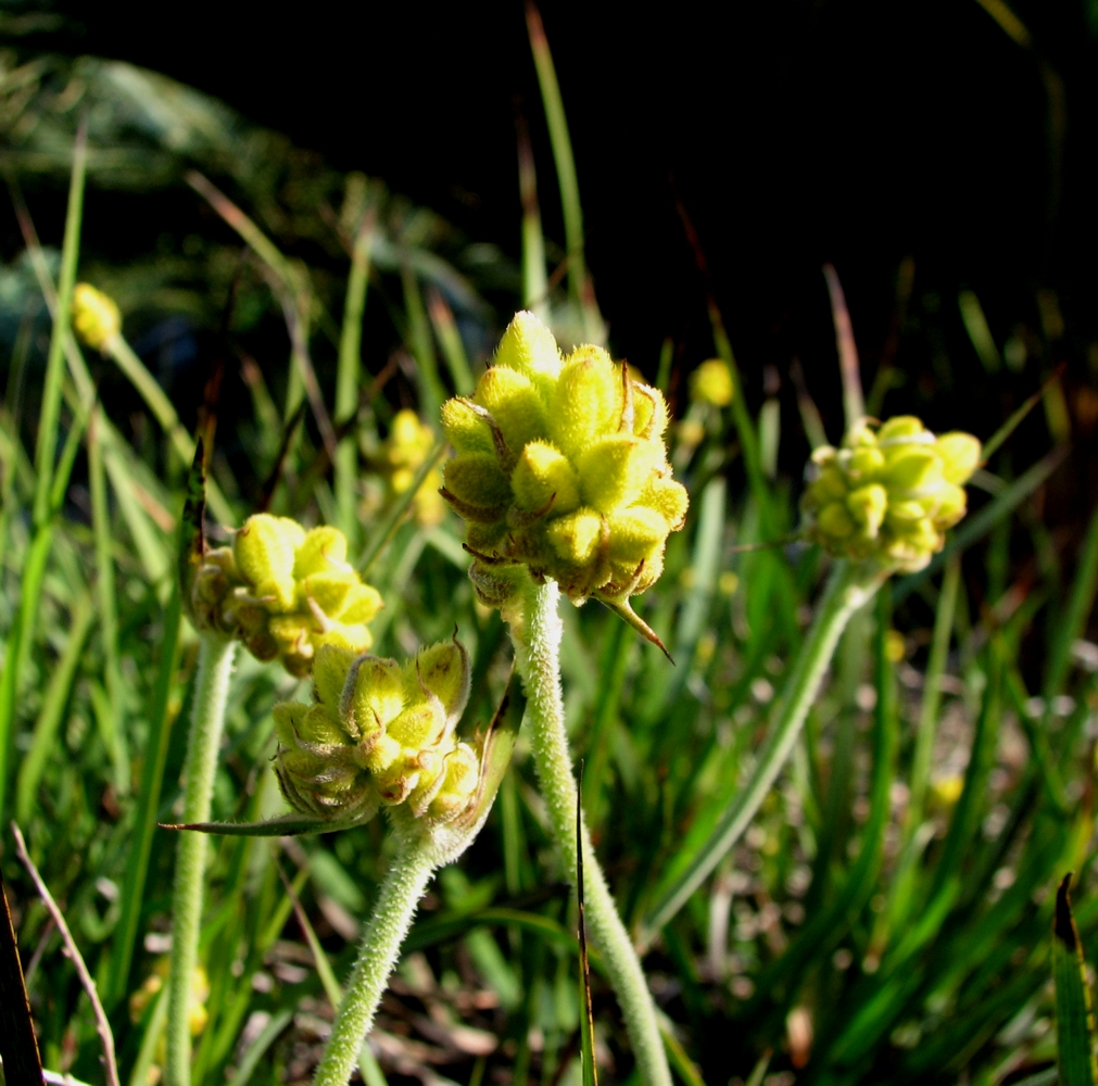 Conostylis aculeata subsp. aculeata (cultivated, labelled) Royal Botanic Gardens, Melbourne